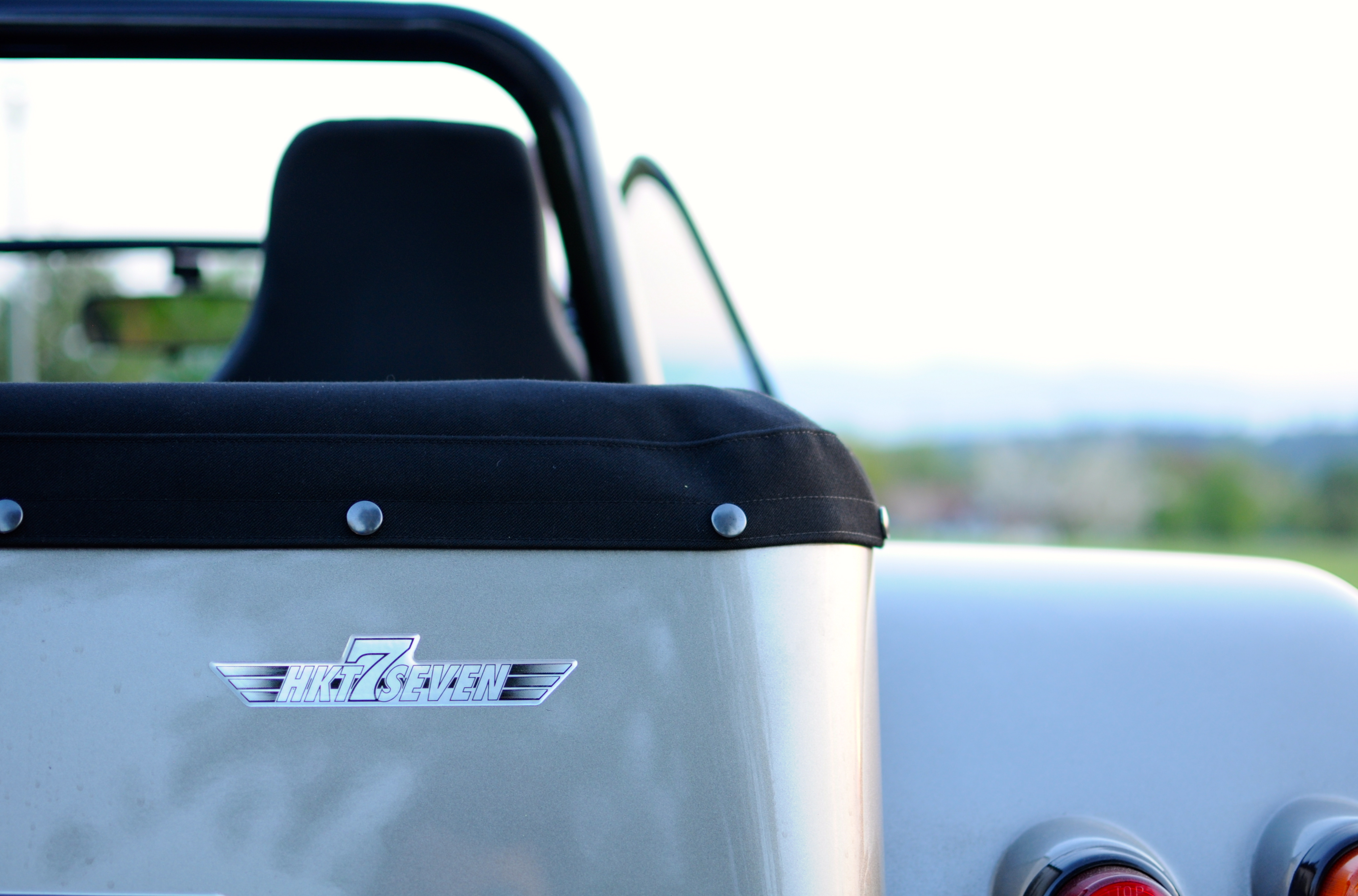 Rear-Part of HKT GTS (Super Seven)